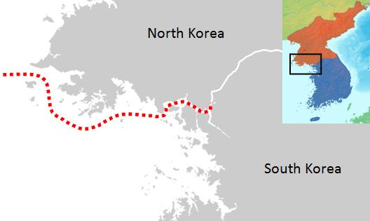 Northern Limit Line separating North and South Korea